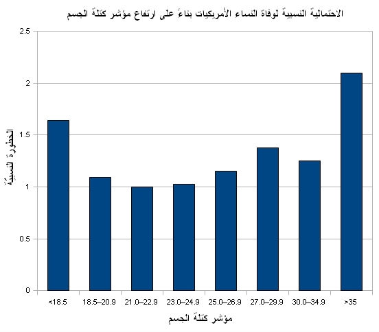 Relative risk of mortality by BMI in U.S. women. Based on Freedman DM, Ron E, Ballard-Barbash R, Doody MM, Linet MS (May 2006). "Body mass index and all-cause mortality in a nationwide US cohort". Int J Obes (Lond) 30 (5): 822–9. PMID 16404410.